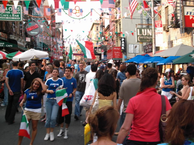 Little Italy in Manhattan on July 9, 2006. One hour after Italy national football team won the 2006 FIFA World Cup in Berlin, Germany.